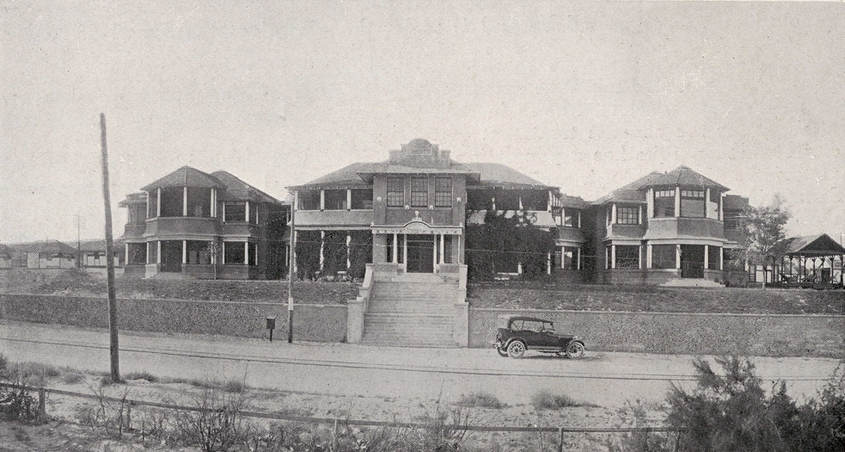 The Presbyterian Sanitarium in Albuquerque. Photo was taken in 1911.